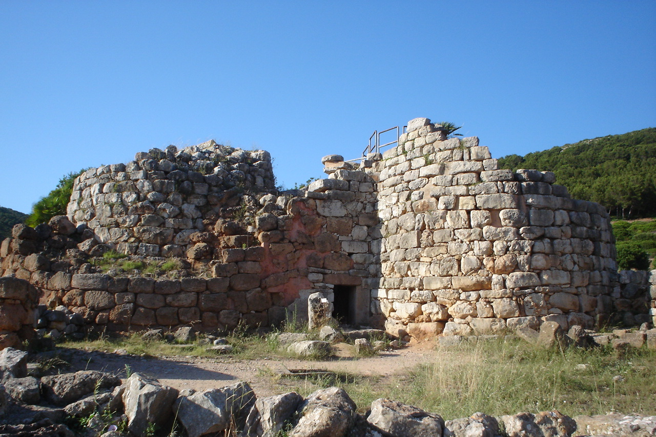 Thorkild C. Bøg-Hansen, Denmark